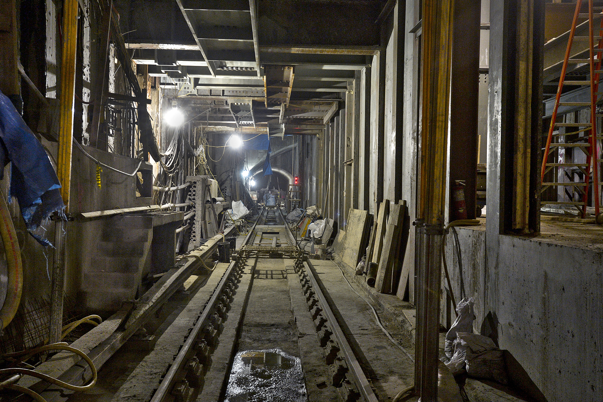 This is an update of the status of construction of the Second Avenue Subway as of late January 2013. This photo shows work underway at station at 63rd Street and Lexington Avenue, which is being expanded to accommodate Second Avenue Subway trains. Photo: Metropolitan Transportation Authority / Patrick Cashin.